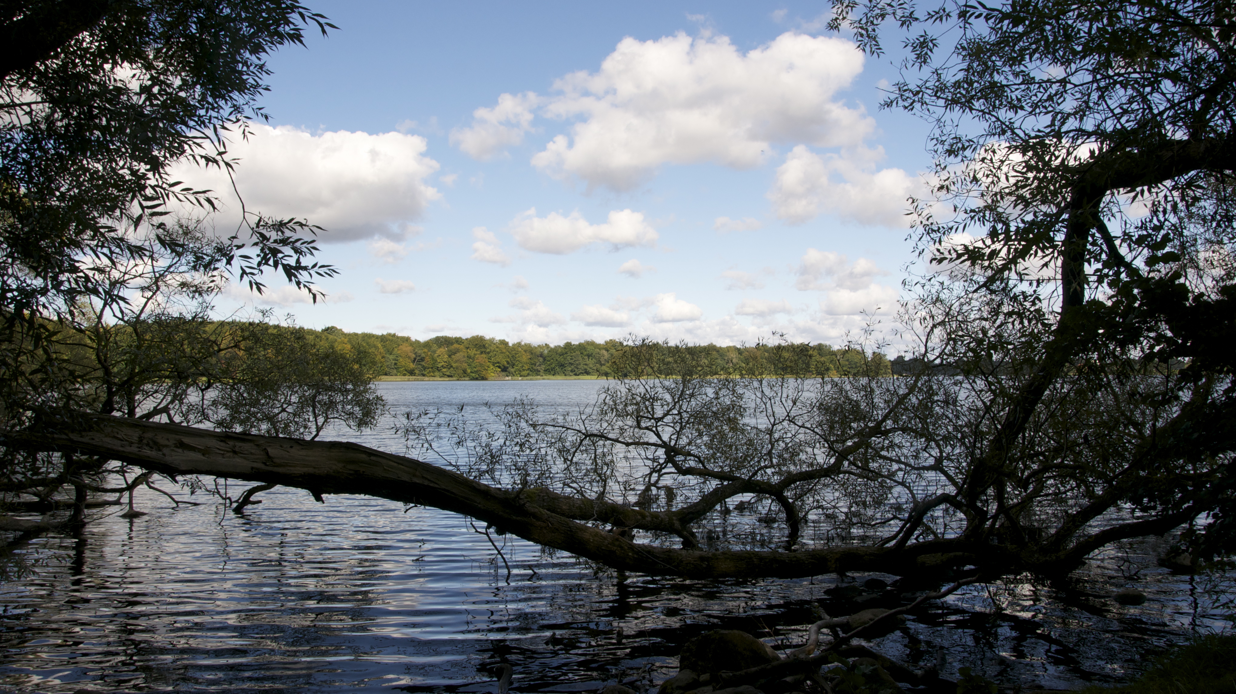 From a lovely autumn day around the lake at "Sorø Sø"